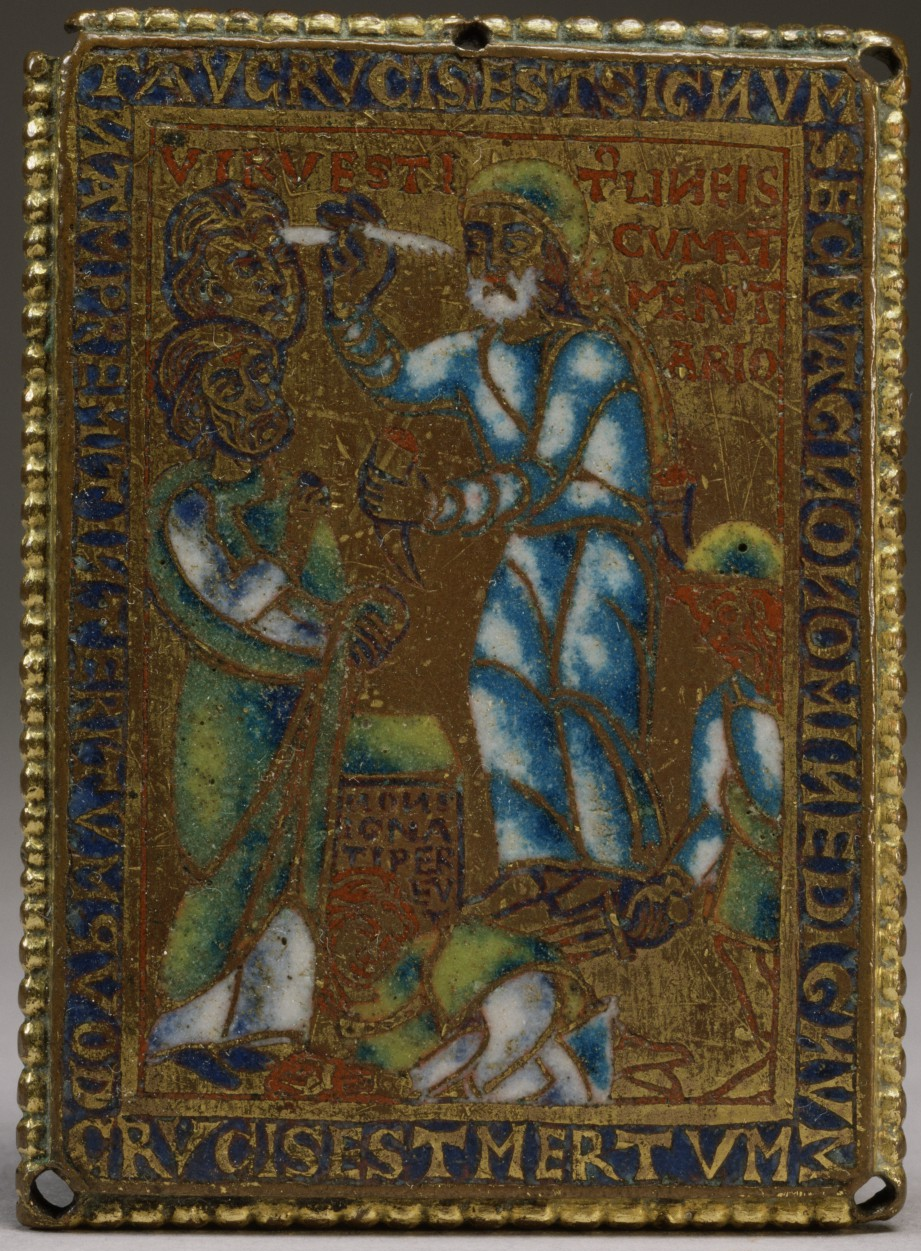 This plaque was once part of an altar cross on which a series of images illustrated Old Testament events (such as Abraham's sacrifice of Isaac) foreshadowing the Crucifixion. It depicts a vision of the prophet Ezekiel, who saw all the inhabitants of Jerusalem, except for those righteous ones whose foreheads had been marked with a sign, punished by death for their sins. According to the Latin text of the Bible used during the Middle Ages, this sign was T-shaped.